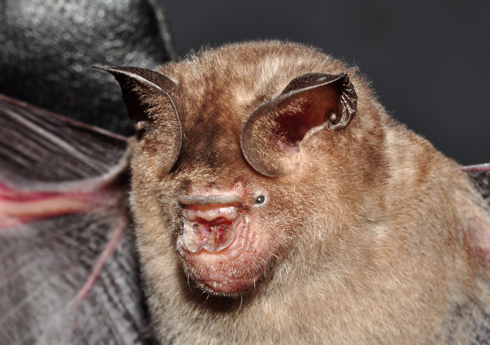 Image showing facial details